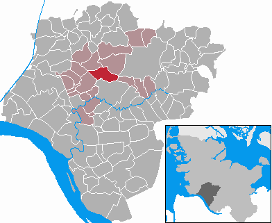 This map shows the area of the municipality Ottenbüttel in the Kreis (district) Steinburg, Schleswig-Holstein, Germany.